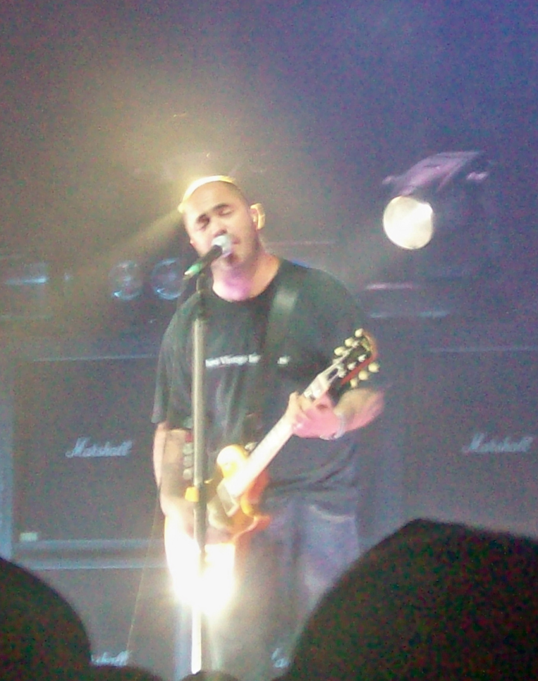 Lewis performing with Staind at the Special Events Centre in Greensboro, North Carolina